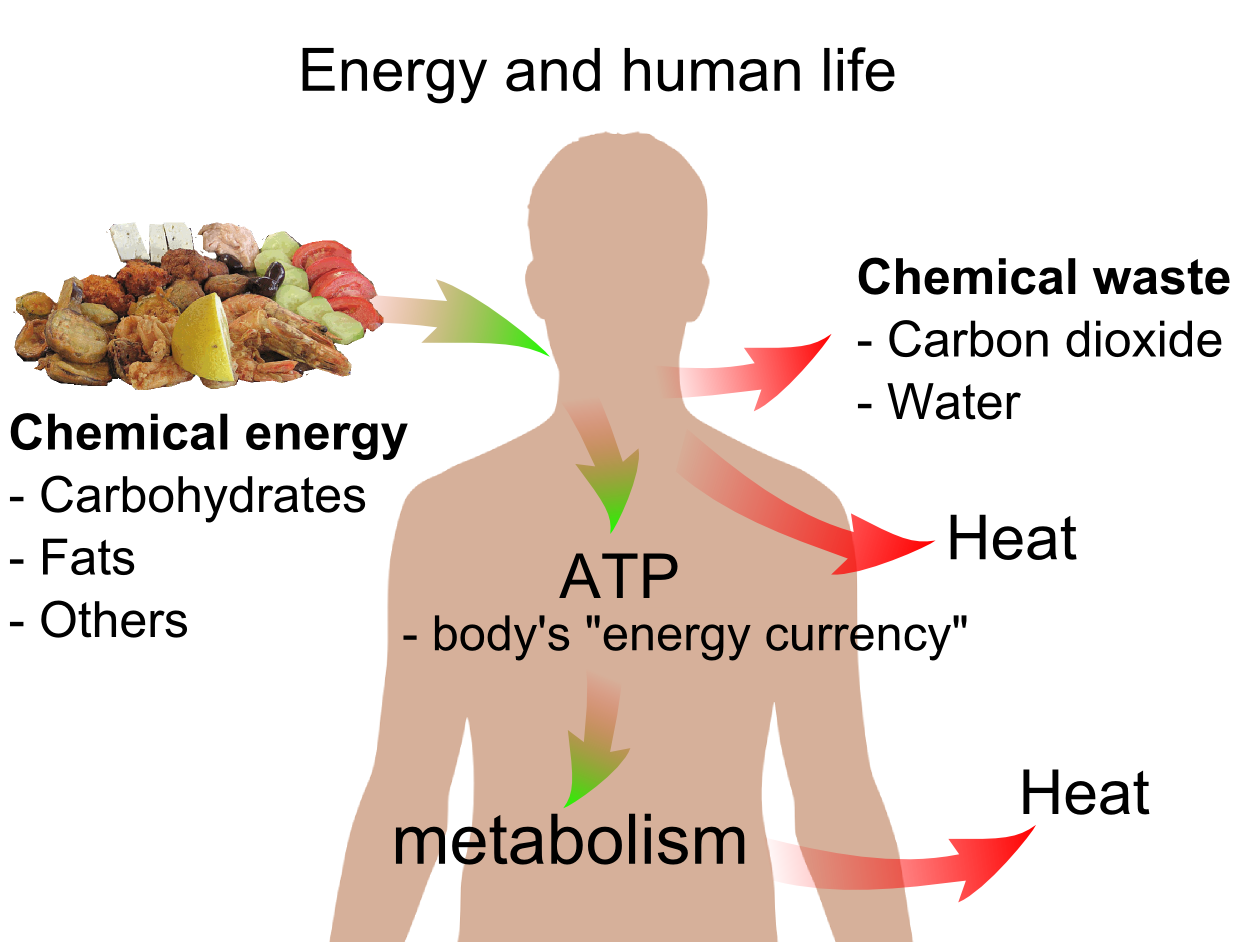 Basic overview of energy and human life (See also Wikipedia:Energy#Energy_and_life).